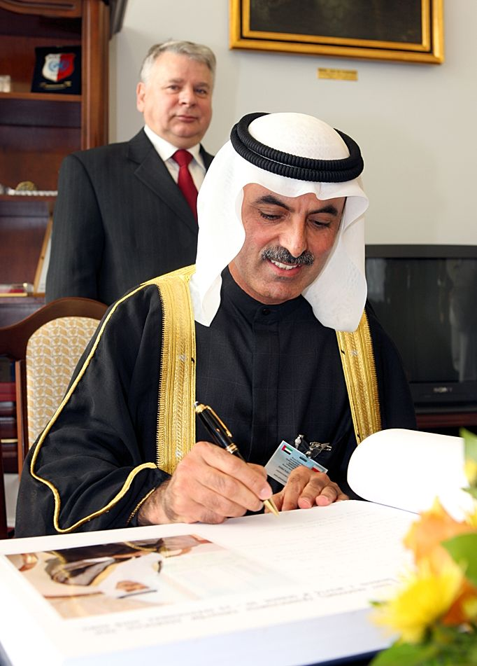 Speaker of the House of the Federal National Council of the United Arab Emirates Abdul Aziz Al Ghurair in the Polish Senate